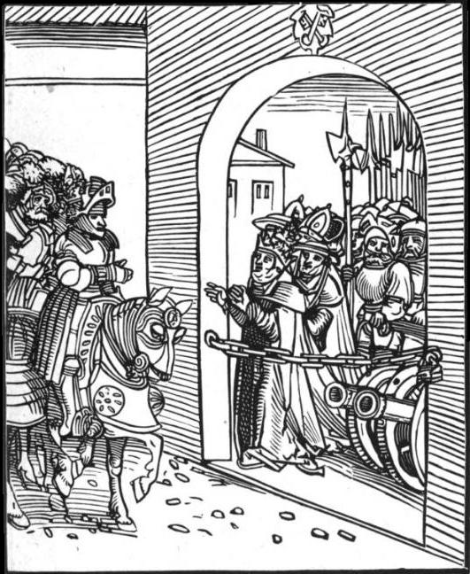 It is a woodcut of the pope demanding recognition of his crown through military force. It is contrasted with a woodcut (not shown) of Jesus fleeing the people attempting to crown him.